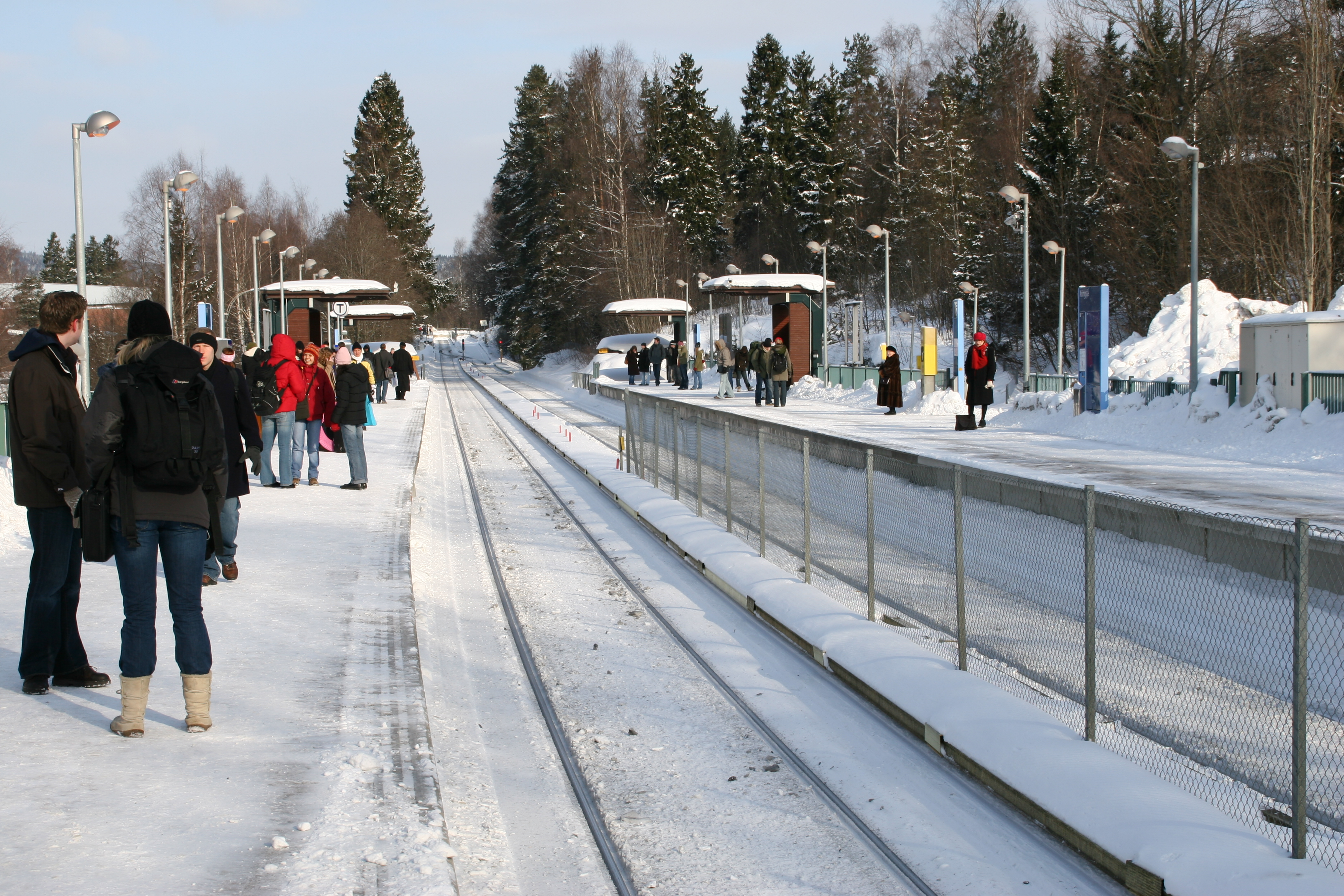 The Kringsjå subway station. Date: 2006-03-10. Norsk (bokmål): Kringsjå T-banestasjon. Dato: 2006-03-10.